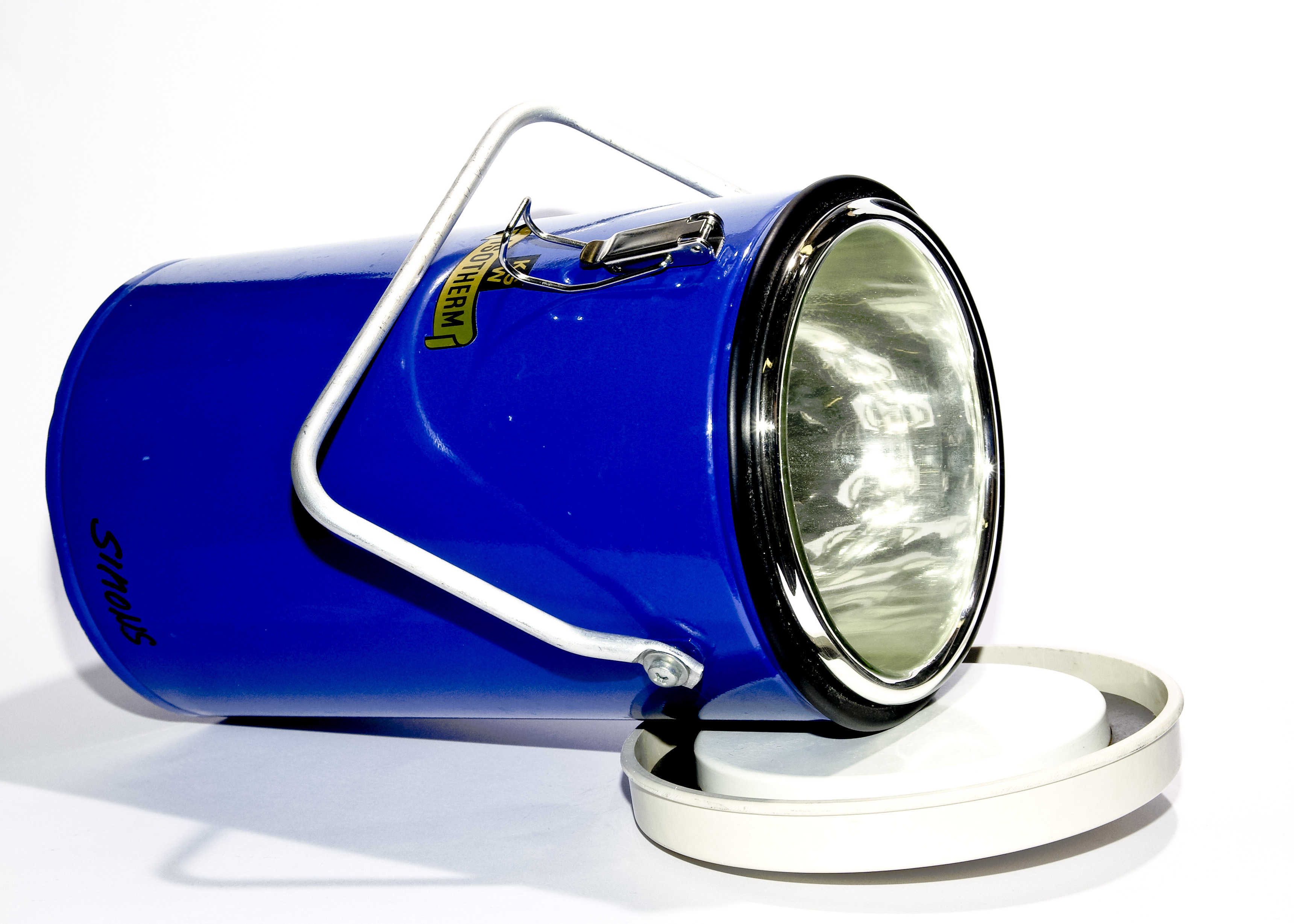 A small dewar for liquid nitrogen for lab use